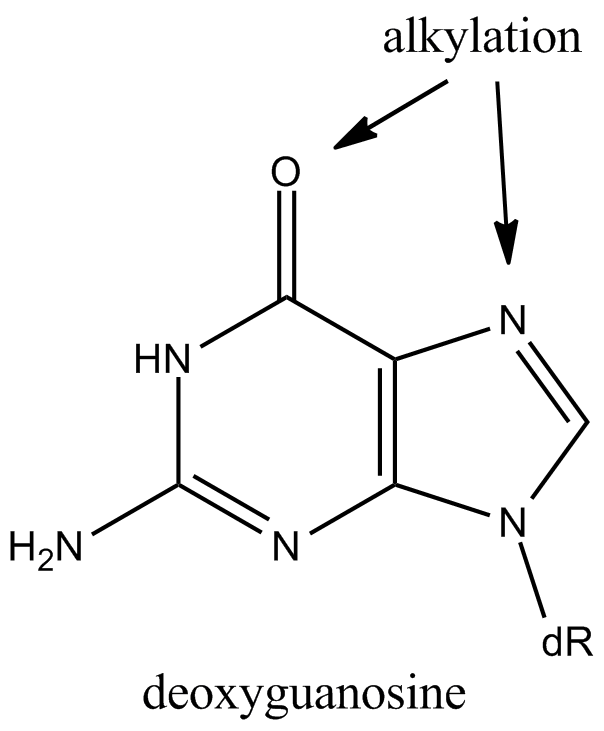 guanine, alkylation at O6 and N7 positions